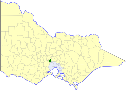 Location of the Shire of Gisborne within Victoria.